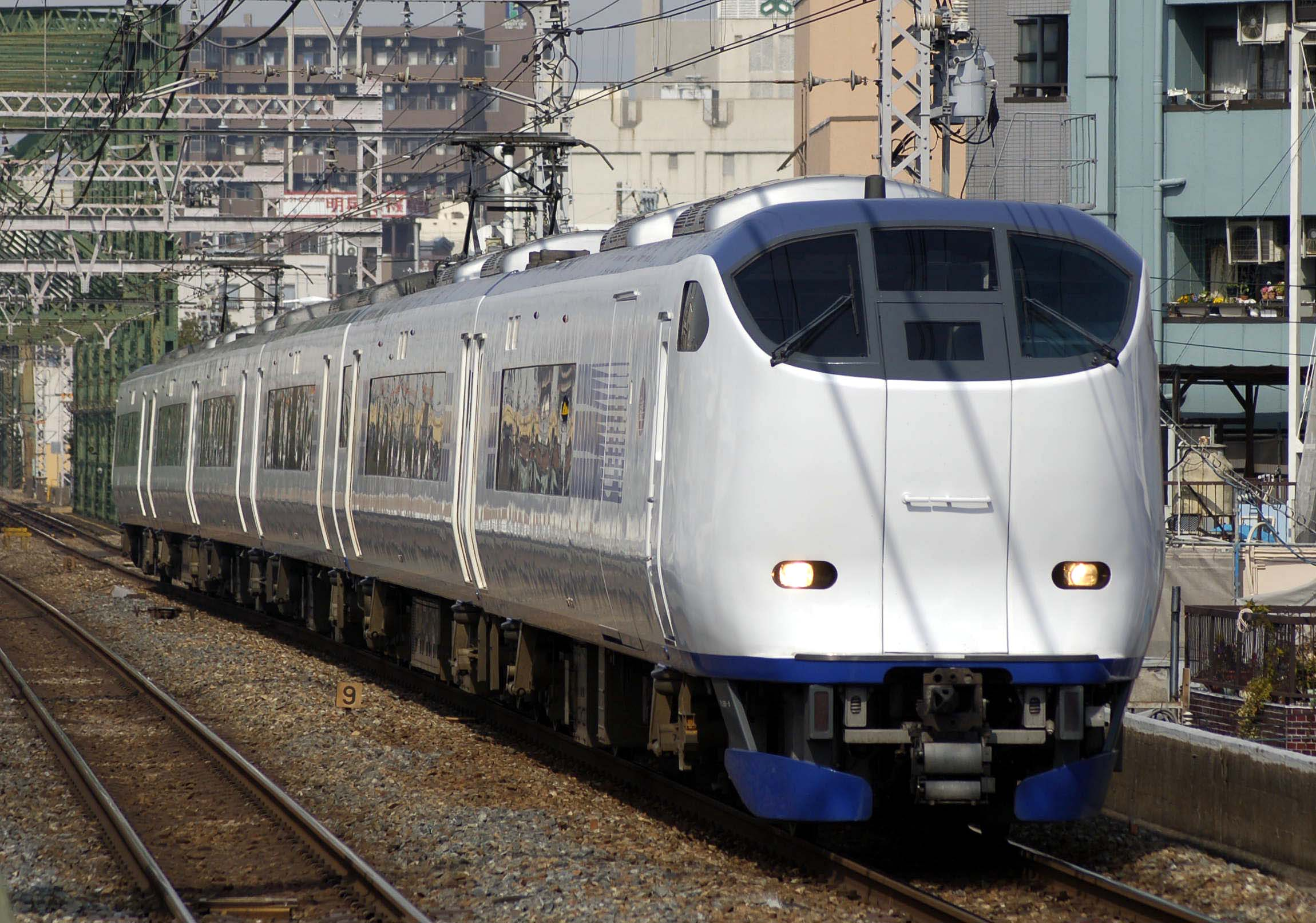 JR West series 281 electric car, limited express "Haruka".